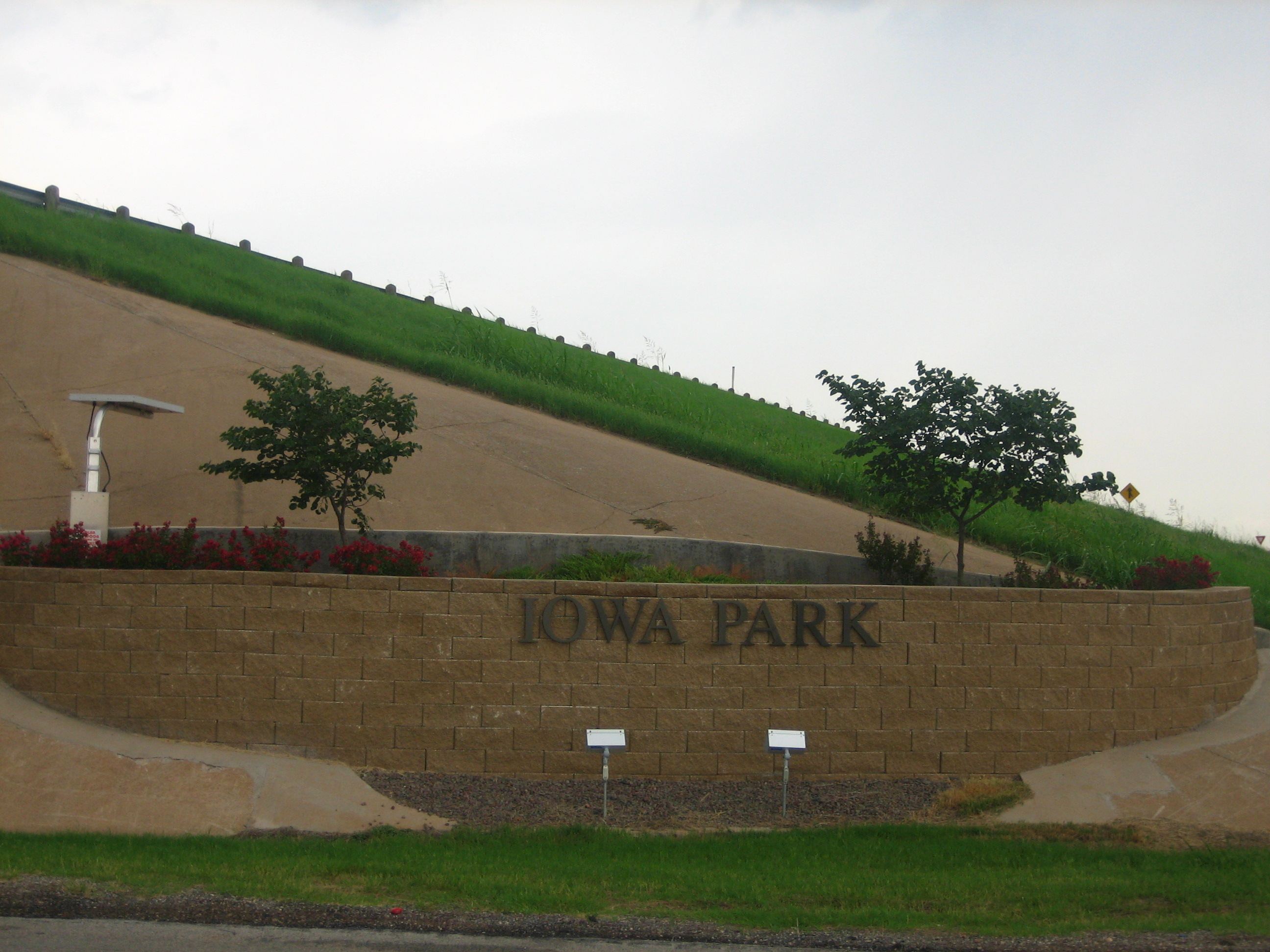 I took photo on July 16, 2008.Billy Hathorn (talk) 02:32, 24 July 2008 (UTC)